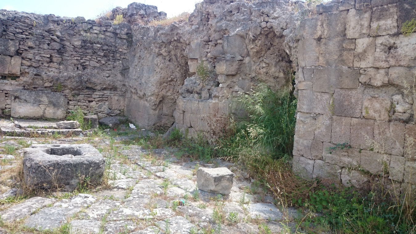 Remains of the ancient city of Ugarit, some walls and a small well.